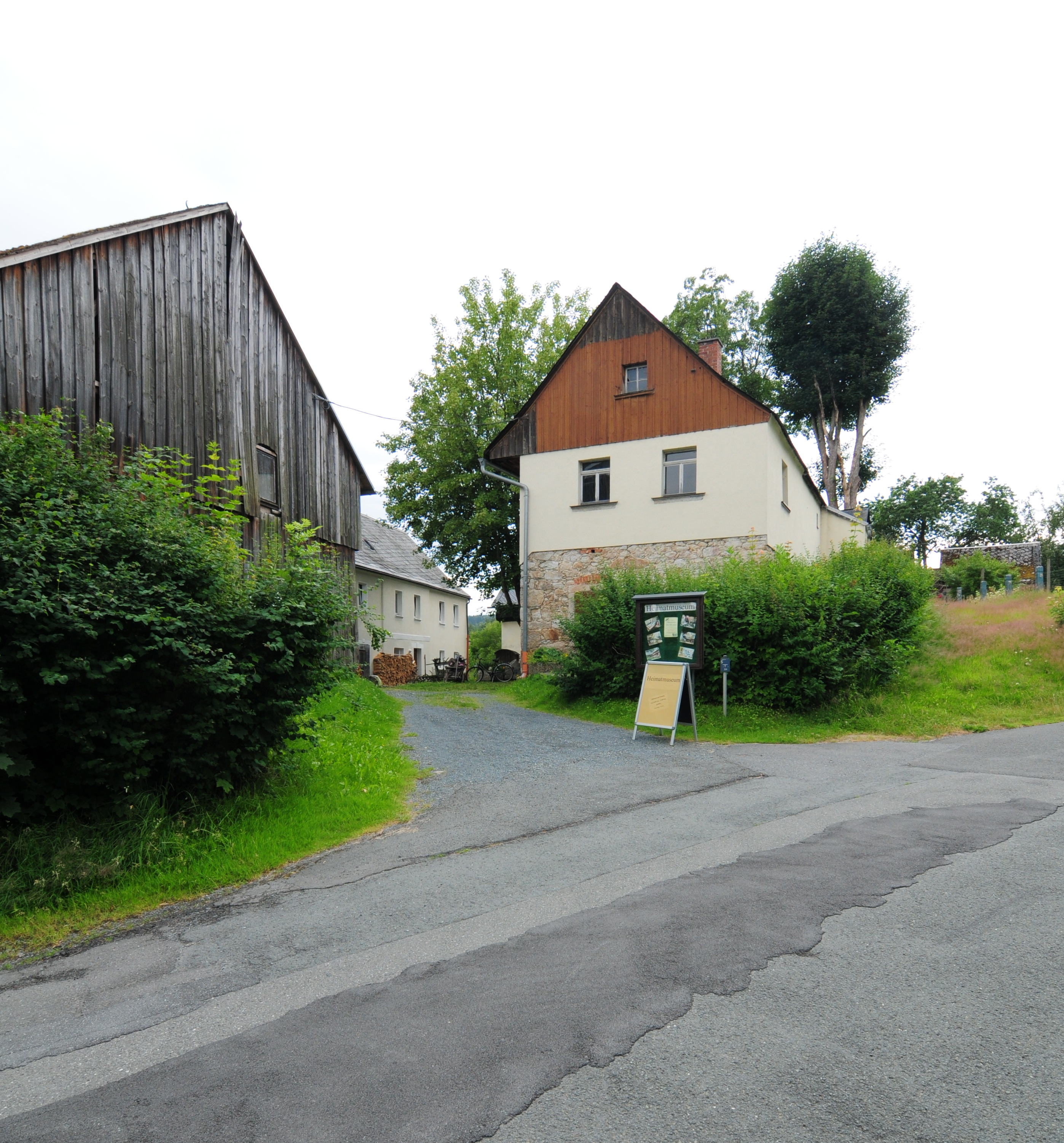 Bad Brambach, museum of local history (district Vogtlandkreis, Free State of Saxony, Germany)